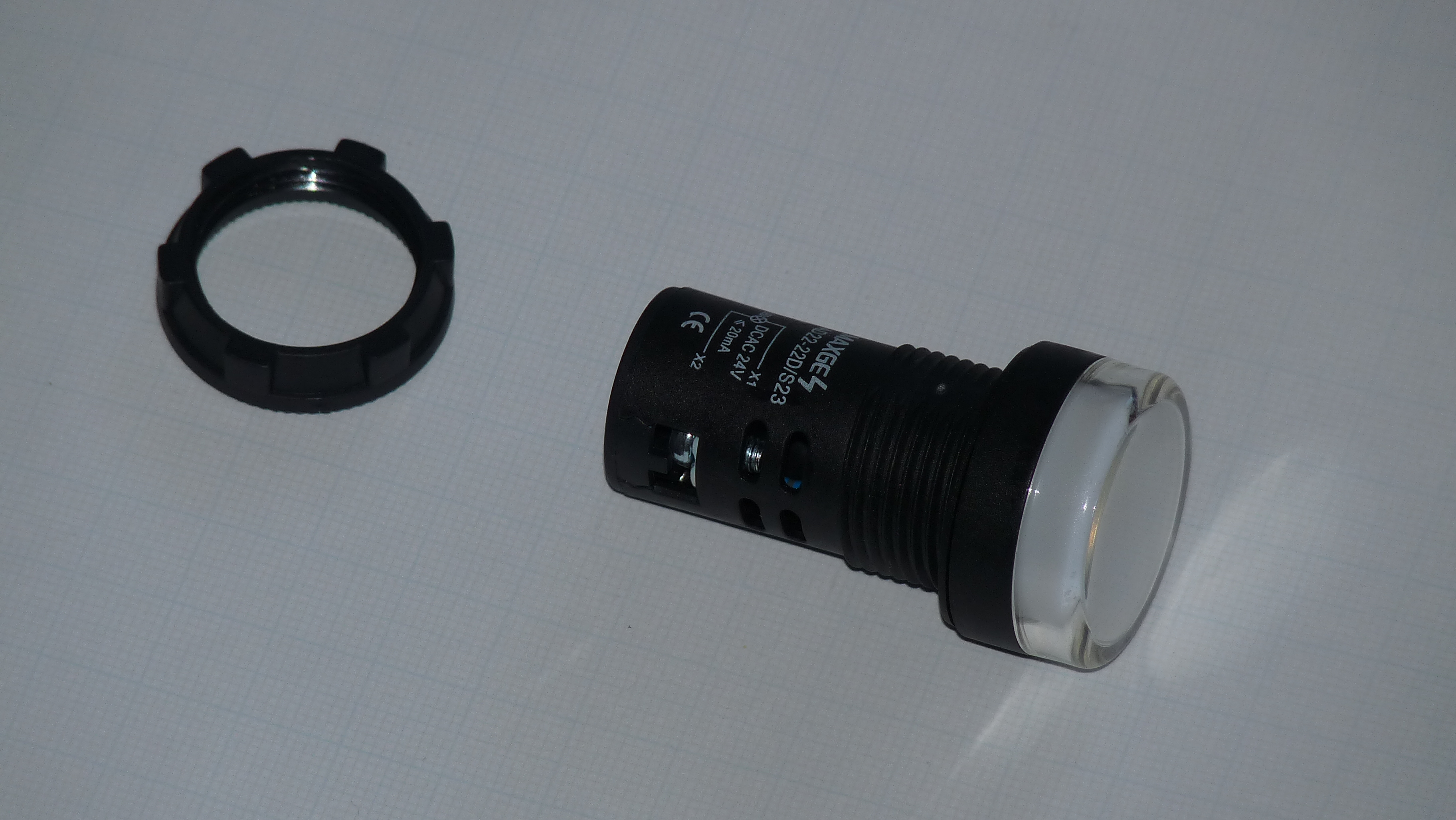 LED control lamp, 24V